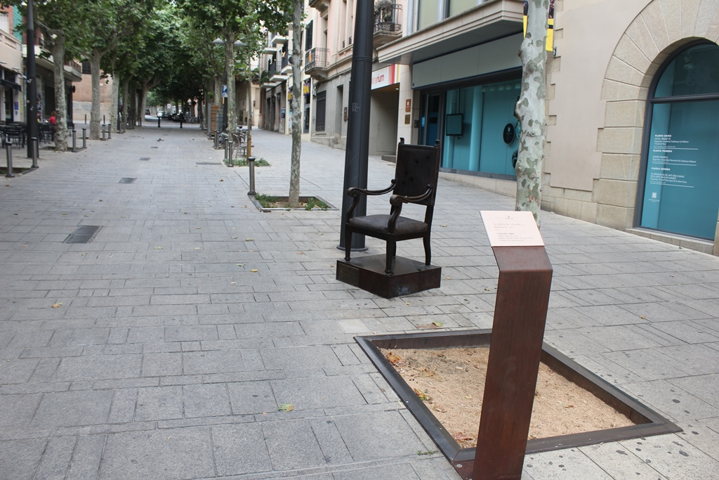 Pere Coll: la cadira de l'alcalde.A Josep Abril, alcalde de Mataró 1931-1933